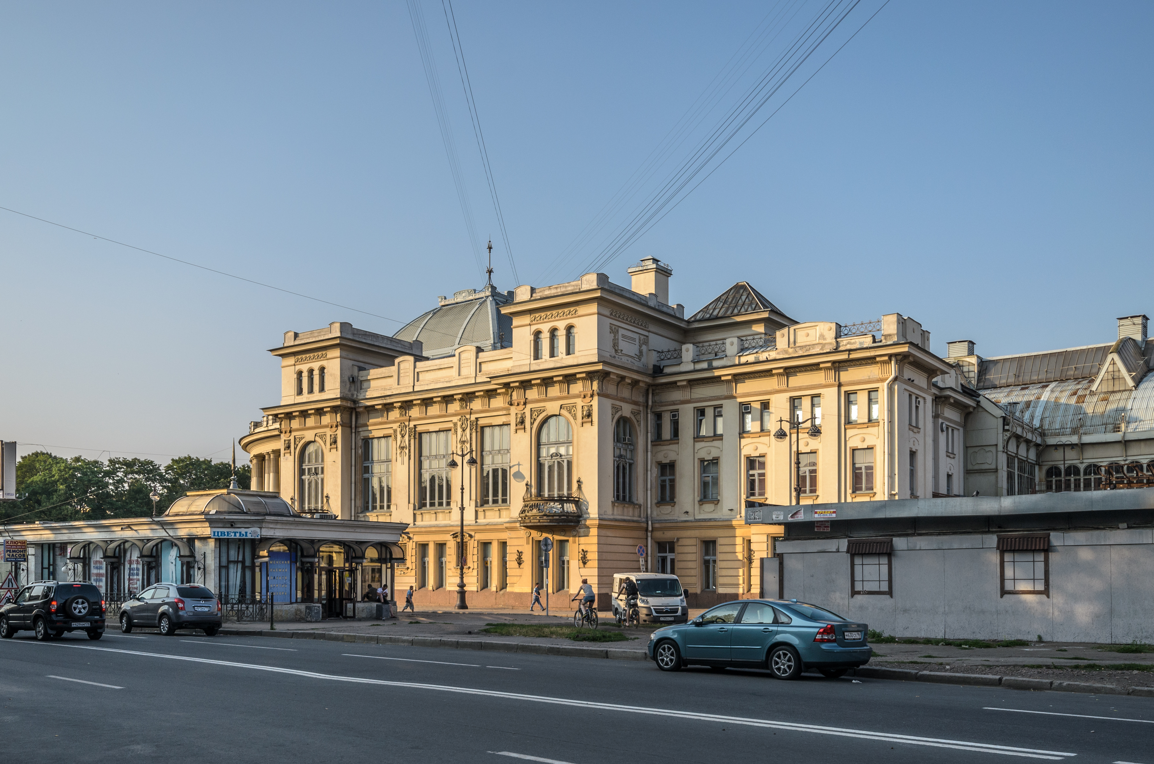 Vitebsky Rail Terminal in Saint Petersburg, West Facade